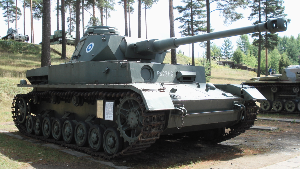 German Panzer IV Ausf. J medium tank, in Finnish markings, displayed in Finnish Tank Museum (Panssarimuseo) in Parola. Photo taken on July 14, 2006. Source: Photo by me, User:Balcer.